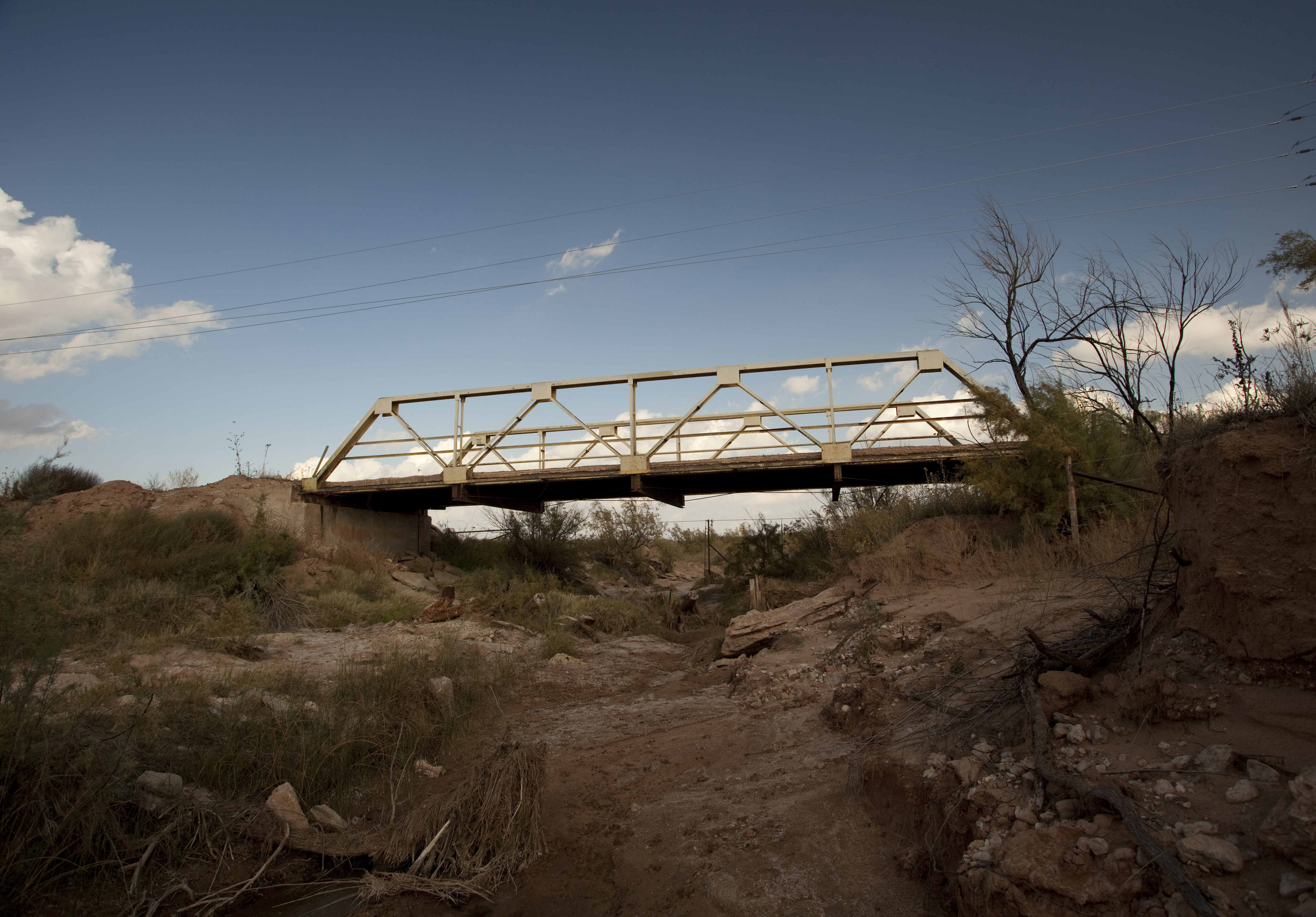 Canyon Valley, Texas, is now a ghost town but this pony truss bridge has survived. This small bridge spans an unnamed dry creek that intermittently becomes a tributary of the Salt Fork Brazos River.